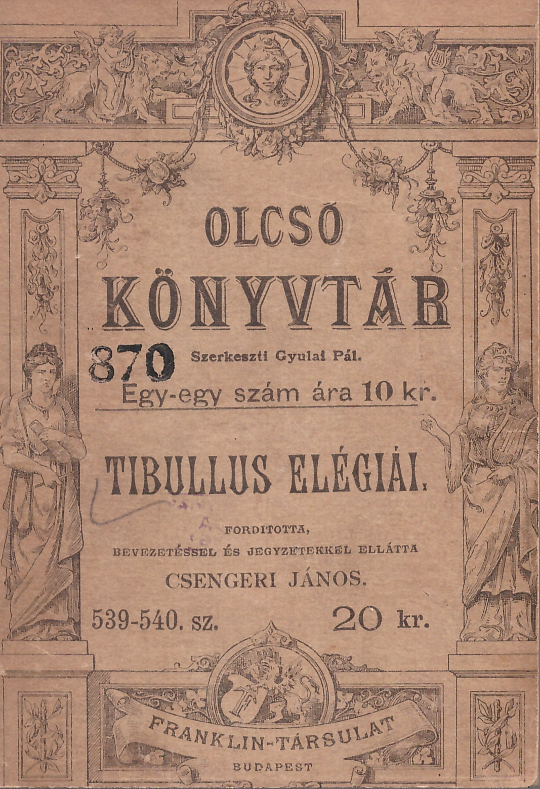 Elegies of Tibullus translated by János Csengery. This is No.539-540 item of the Olcsó Könyvtár (Franklin Társulat) book serie. Published in 1886.